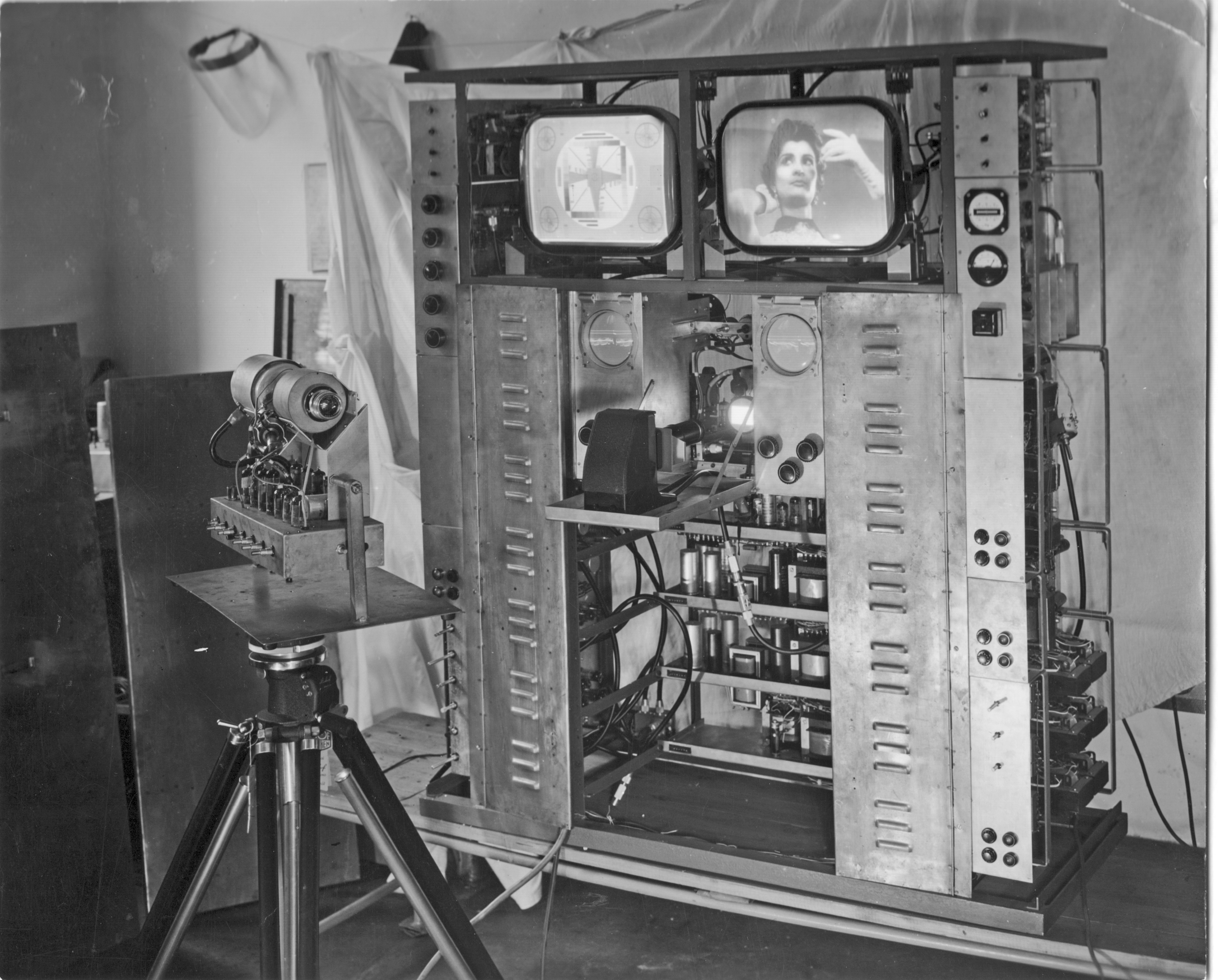 Grundig TV laboratory 1952 (Germany). Left Supericonoscope TV camera; right from top: early Grundig TV receivers, slide camera, power system.